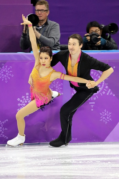 Photos – Olympics 2018 – Dance (MURAMOTO Kana REED Chris JPN – 15th Place)